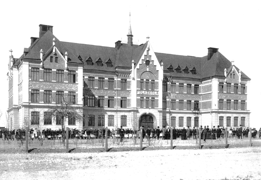 The school Vasaskolan in Örebro Sweden 1903